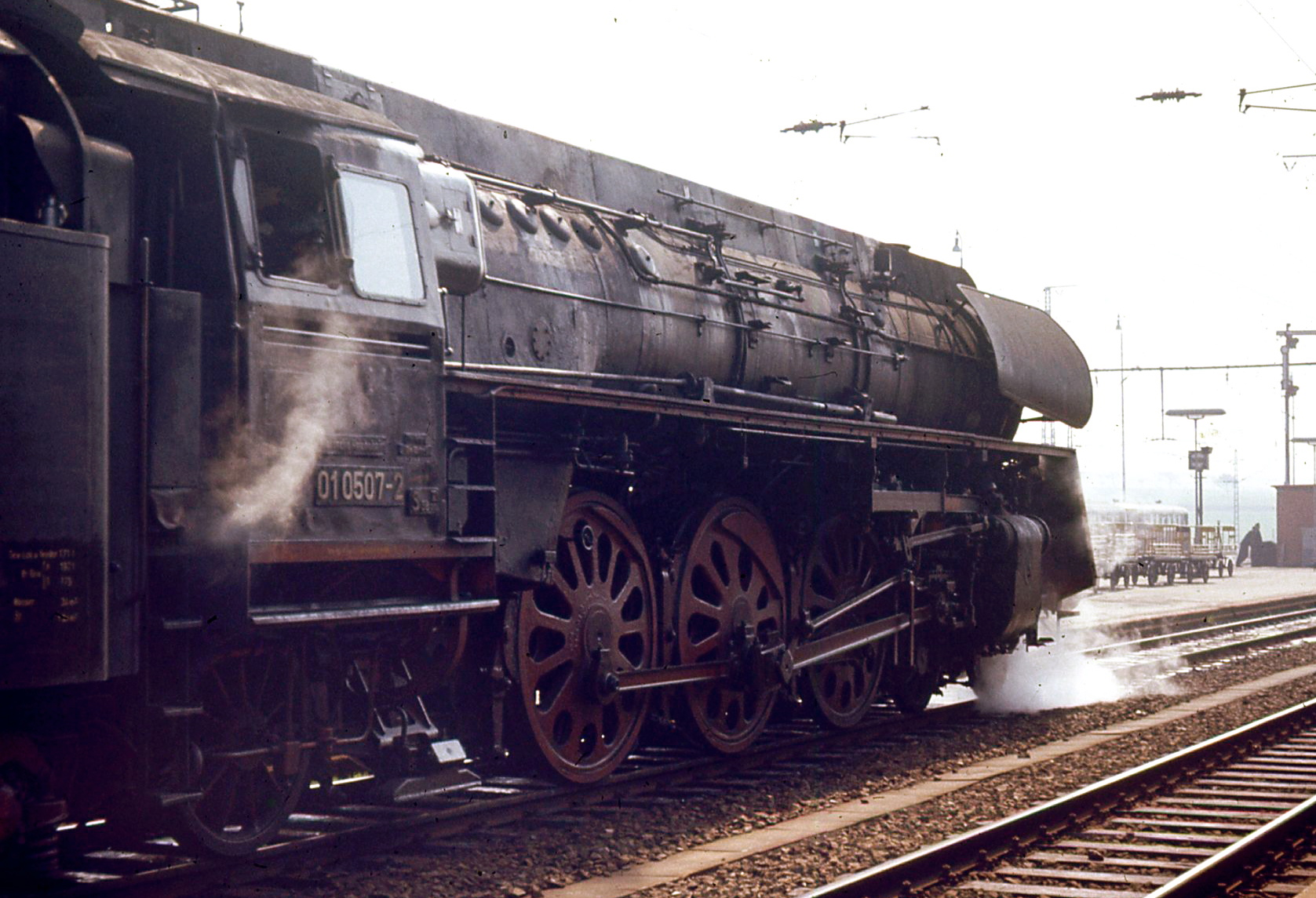 Rekolok with boxpok wheels at Bebra station.